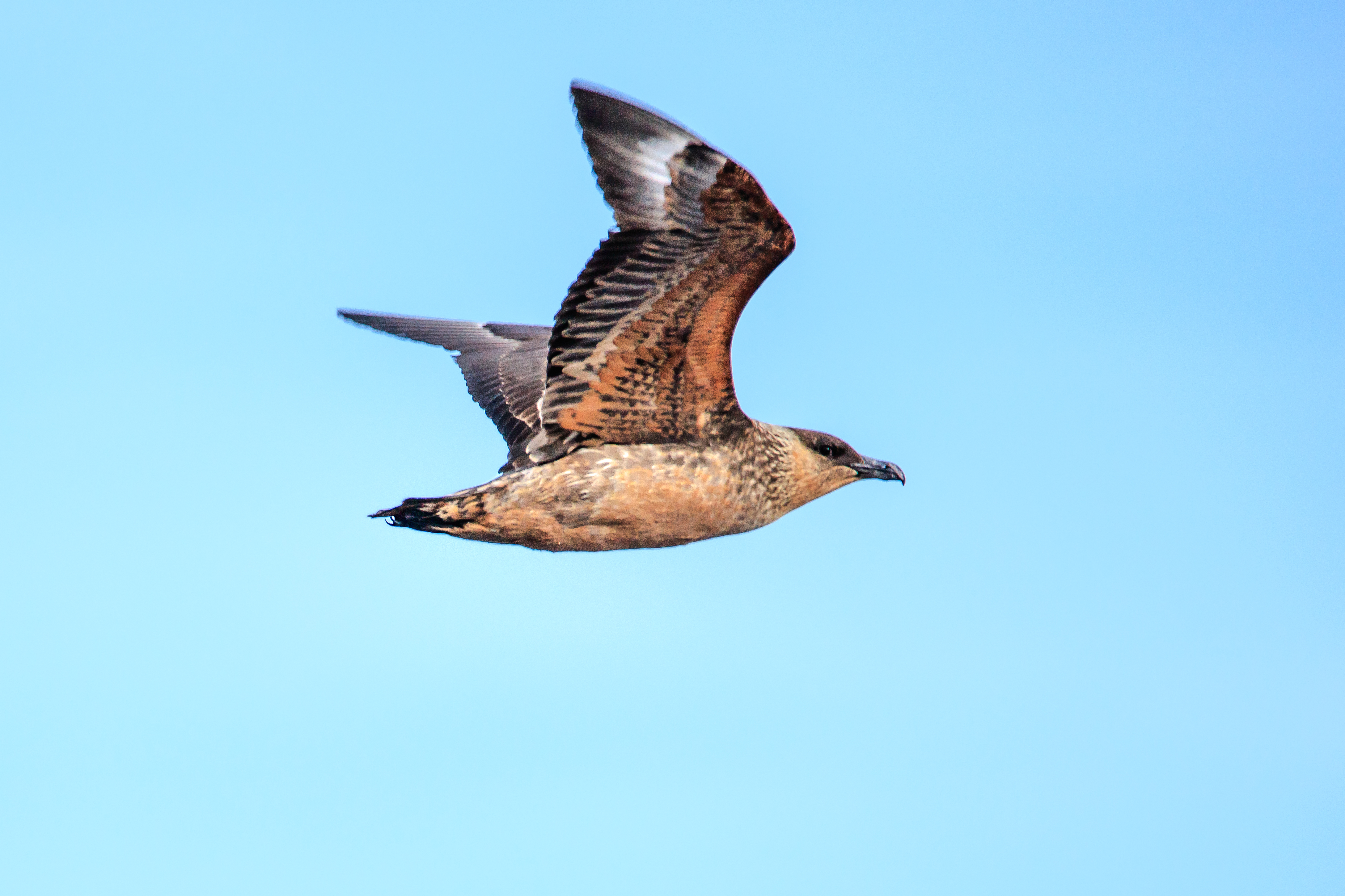 Chilean Skua Catharacta chilensis from Cape Horn through the Beagle Channel to Ushuaia, Argentina.